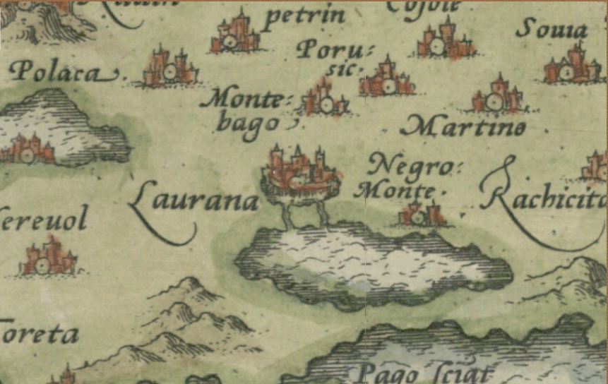 Burg Vrana in 16th century, now Croatia